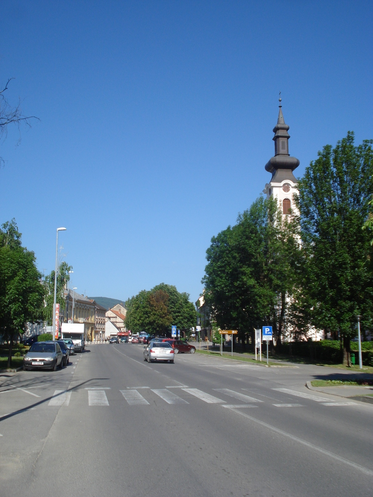 Otočac (Lika-Senj County, Croatia) - Church of the Holy Trinity in the centre of the townHrvatski: Otočac (Ličko-senjska županija, Hrvatska) - Crkva presvetog trojstva u centru grada